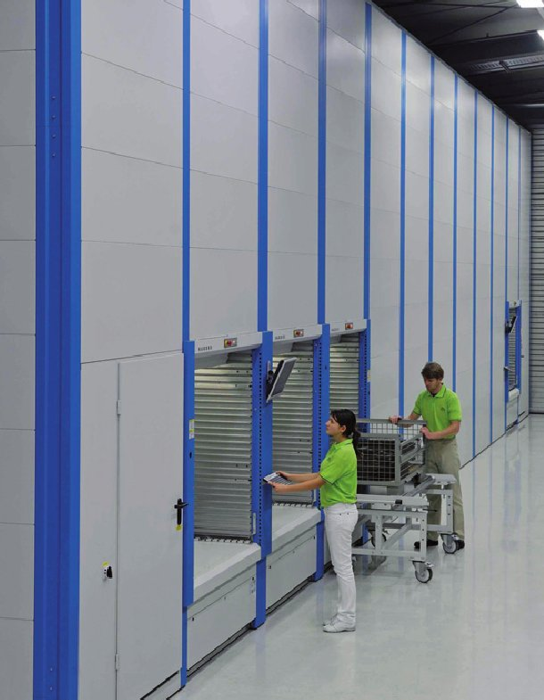 Vertical Lift Module